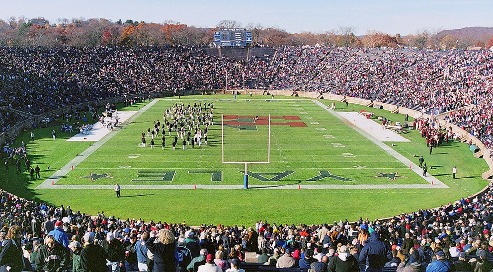 Halftime activities at The Yale-Harvard Game at the Yale Bowl, New Haven, CT, November 17, 2001. Picture by Henry Trotter.